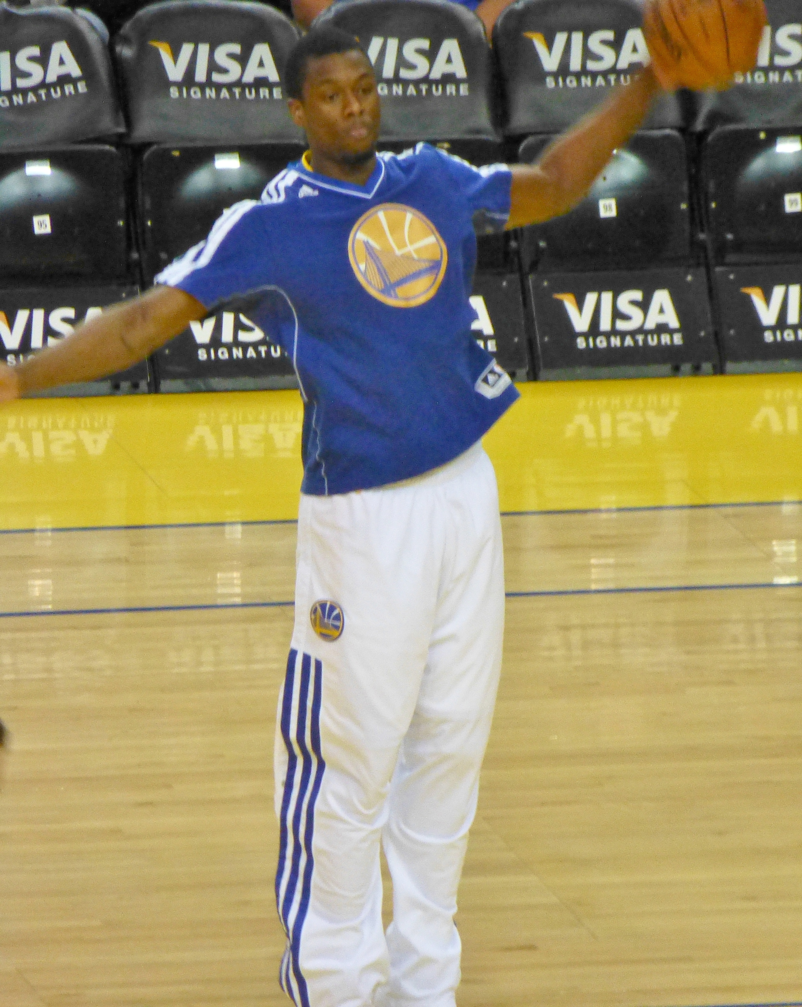 Golden State Warriors basketball player Harrison Barnes warms up before a game at the Oracle Arena, Oakland, Calif. on March 6, 2013.